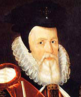 William Cecil 1st Baron Burghley in Garter robes painted by Marcus Gheeraerts the Younger or John de Critz the Elder. (Detail)